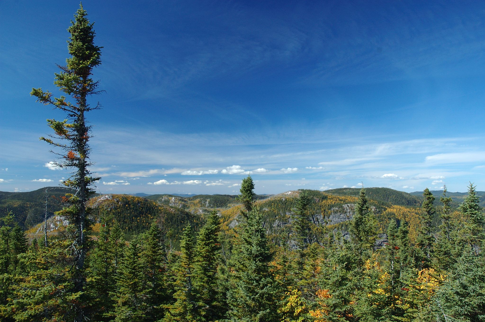 Parc national des Grands-Jardins, Québec.